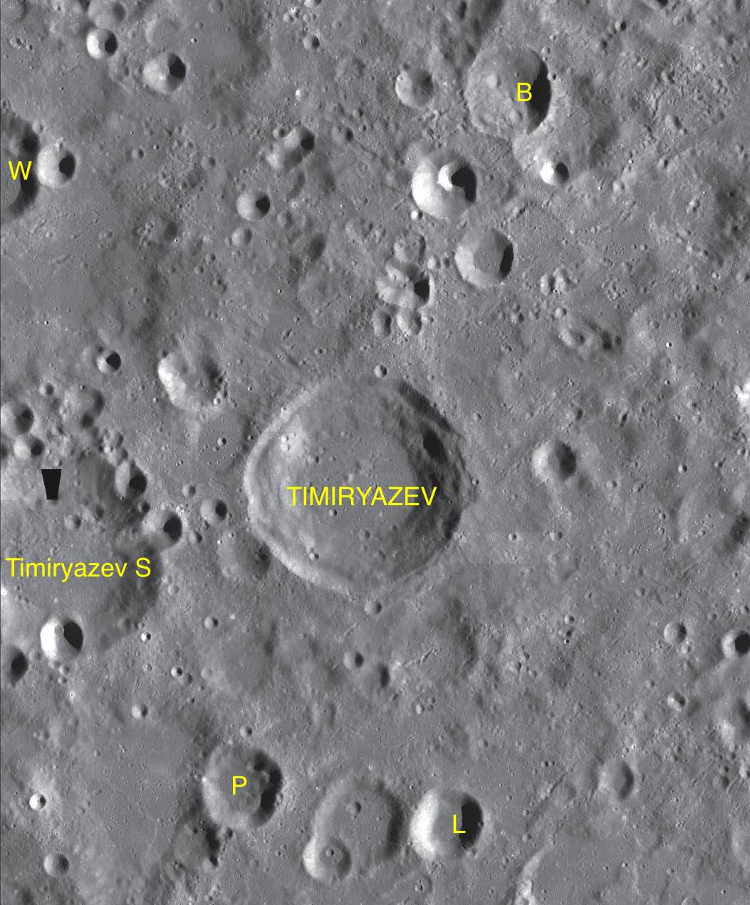 Part of the chart LAC-88 used for the presentation